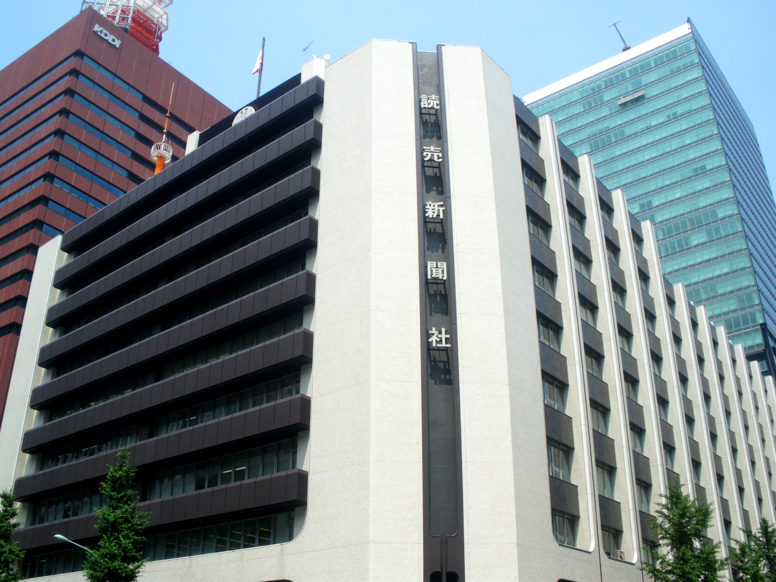 A photo of the former head office (now demolished) of Yomiuri Shimbun,Otemachi, Chiuodaku-ku,Tokyo,Japan.